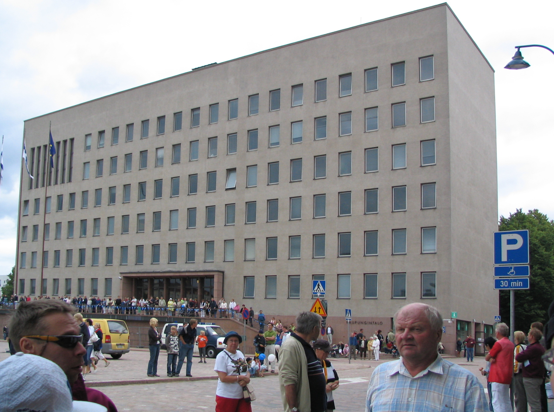 Kotka City Hall